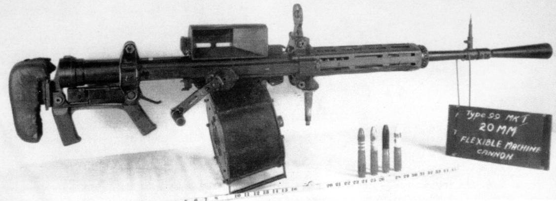 Japanese Type 99-1 flexible 20-mm cannon